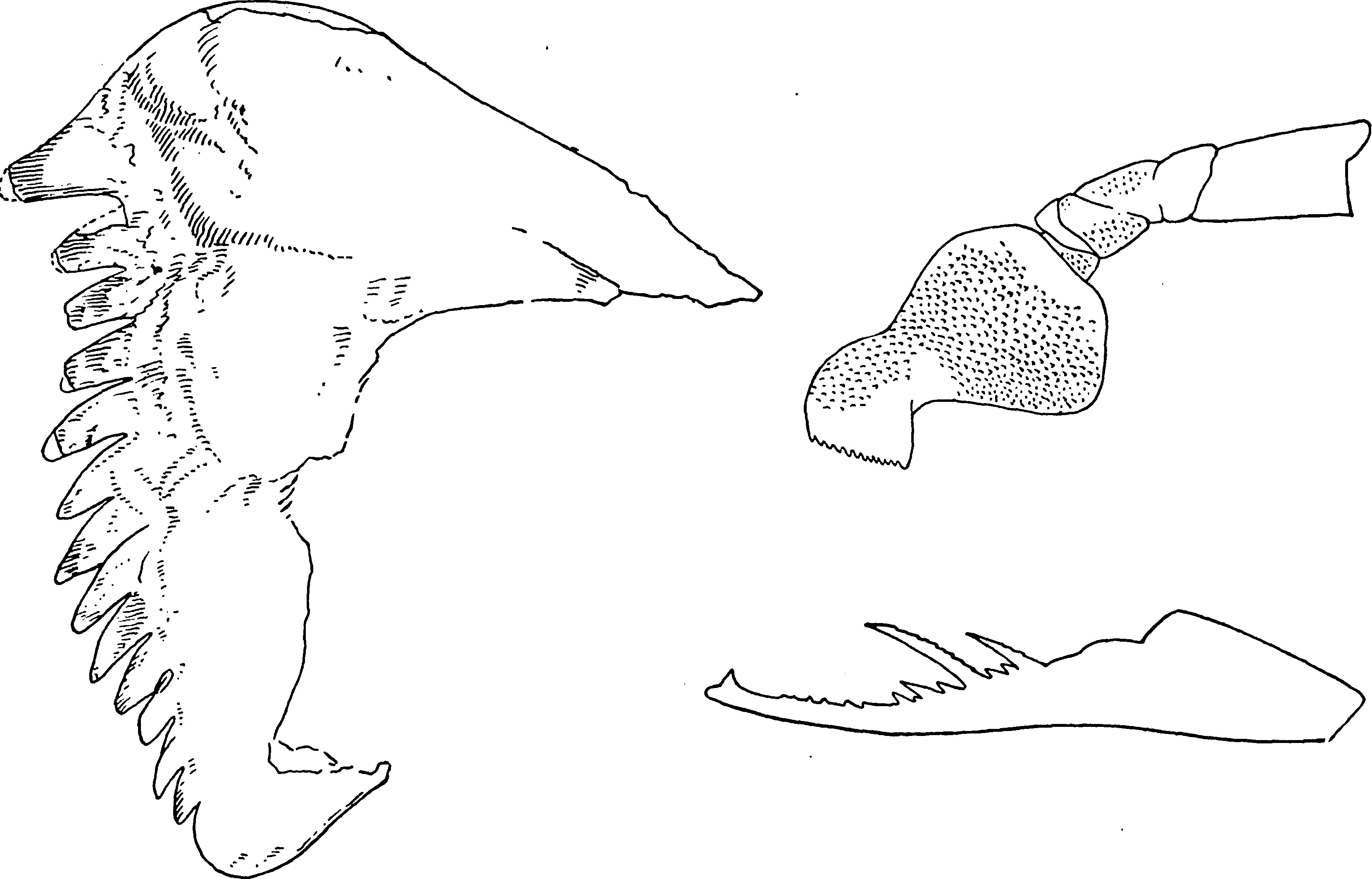 Title: The Eurypterida of New York Year: 1912 (1910s) Authors: Clarke, John Mason, 1857-1925; Ruedemann, Rudolf, 1864-1956 Subjects: Eurypterida; Paleontology Publisher: Albany, New York State Education Department Text Appearing Before Image: 36o NEW YORK STATE MUSEUM this telson we may say that there appears to have existed some variation in form, as there is among our specimens one showing the other extreme, namely, a relatively broad form (pi. 72, fig. 3); none of these differences seems sufficient for the erection of new species, since the occurrence of transitional stages is obvious. Moreover, a slight lateral compression which clearly has affected some of the specimens, and specially the type of Text Appearing After Image: Figure 72 Original figure of Pterygotus Figure 73 Pterygotus buffaloensis 0 u m m i n g s i Grote 8c Pitt Pohlman. The original figures acuticaudatus, is fully competent to produce a like effect (pi. 77, fig. 5). Text figure 75 is a reproduction of the type of P. quadrati- caudatus and plate 76 shows the ultimate segment, which in reality it is, in position in a nearly complete postabdomen. Finally Pohlman cited P. bilobus Huxley and Salter, as among the forms of the waterlime at Buffalo, basing his assertion on a fragment consisting of eight posterior segments. This fragment is preserved in the museum of